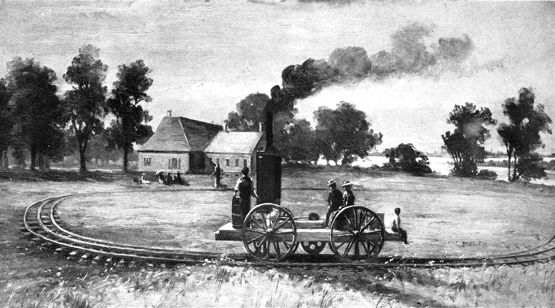 The first American locomotive on rails at Castle Point, drawing , Hoboken.